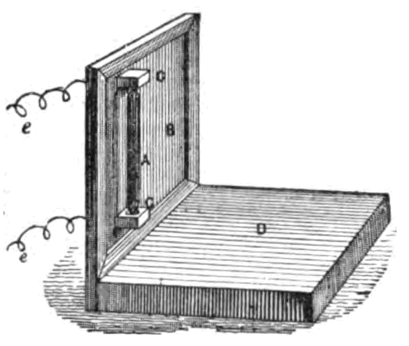 Crude carbon rod microphone invented by David Edwards Hughes in 1878. It consists of a carbon rod (A) suspended by its pointed ends vertically between two metal electrodes (C). Sound vibrations transmitted from the wooden back (B) to the carbon-steel contact causes varying pressure on the carbon granules, causing variation in the carbon's resistance. Edwards found that the device was very sensitive, he was able hear the sound of a fly walking on it, and named it "microphone". Edwards did not invent the microphone but experimented with a wide range of "microphonic" electrical contacts. With another type of contact he discovered he could detect electromagnetic waves from a spark, thus inventing a type of coherer.